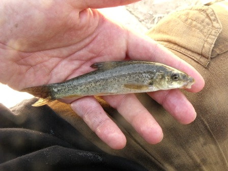 Barbus tyberinus photographed in Grosseto Province. Released after photo. Photo by Massimiliano Marcelli.